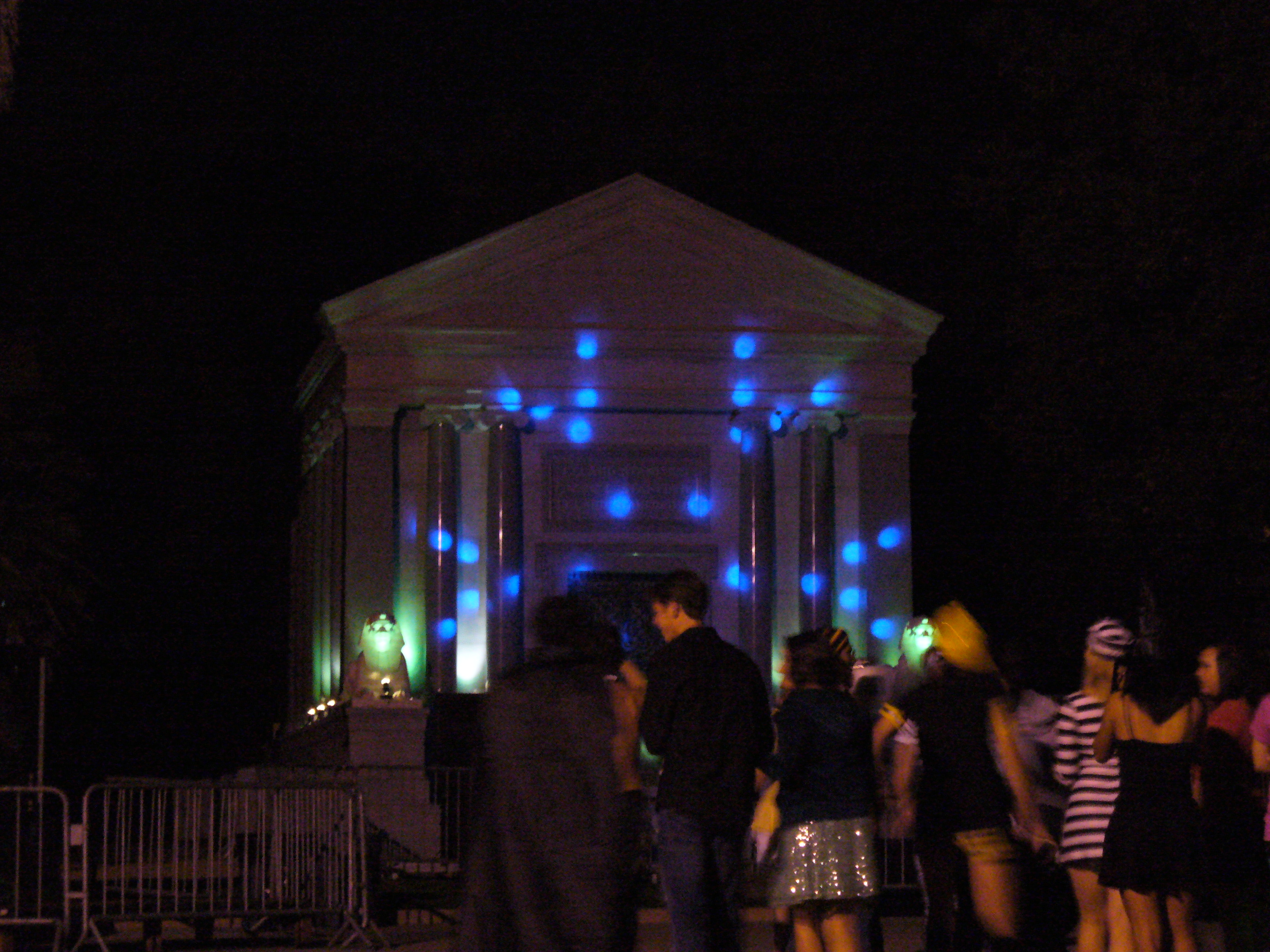 Stanford Mausoleum during the annual Halloween Party at Stanford University